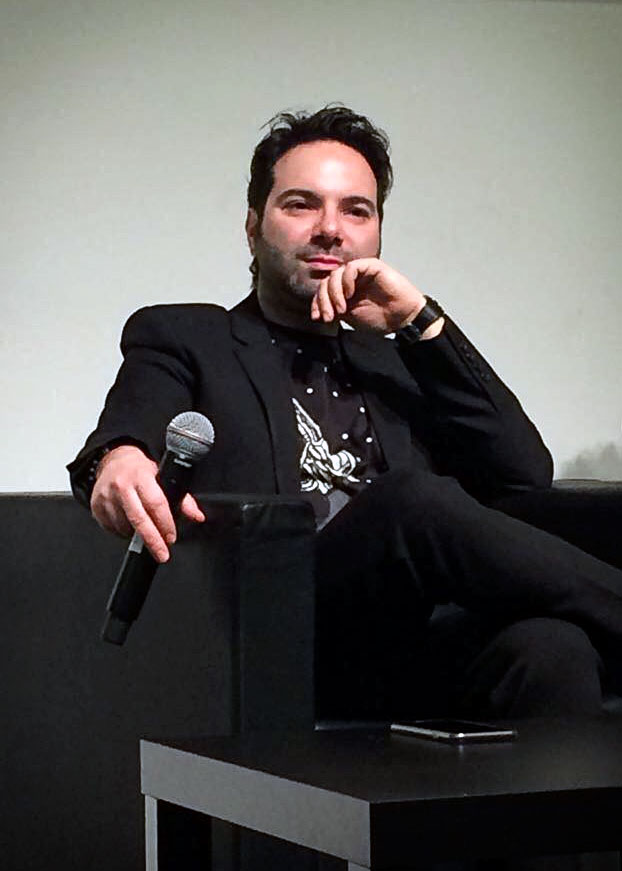 Marcello Simoni Autore